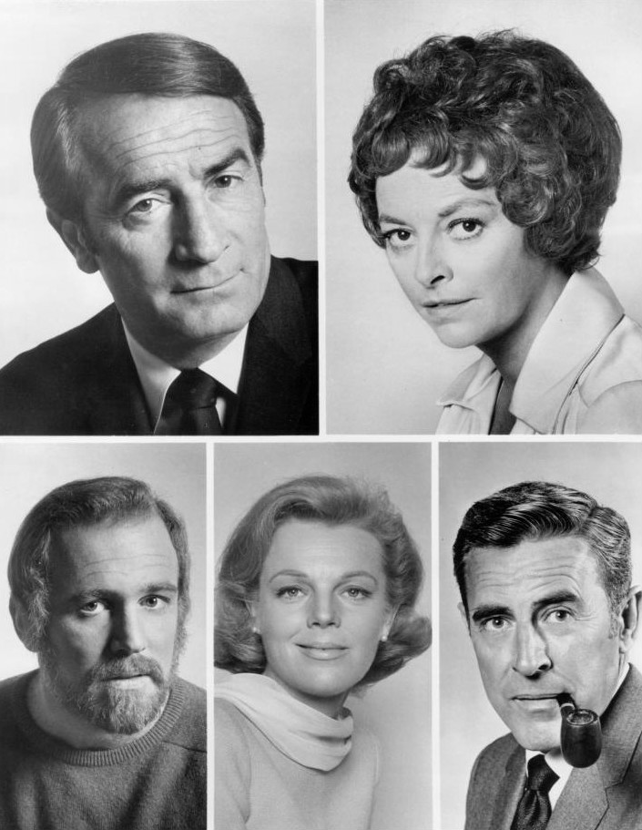 Publicity photo of the cast from the daytime drama, General Hospital. Top: John Beradino, Emily McLaughlin. Bottom, from left: Martin West, Rachel Ames, Peter Hansen.